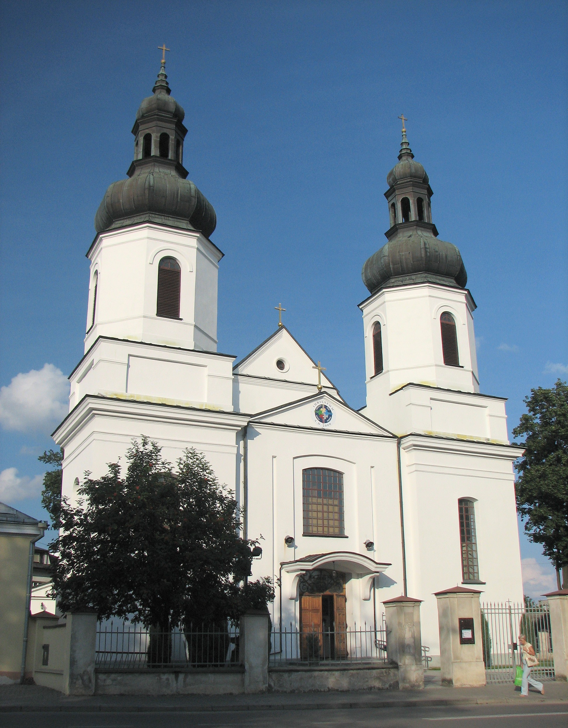 The church of Our Lady of Mount Carmel in Bielsk Podlaski, Poland